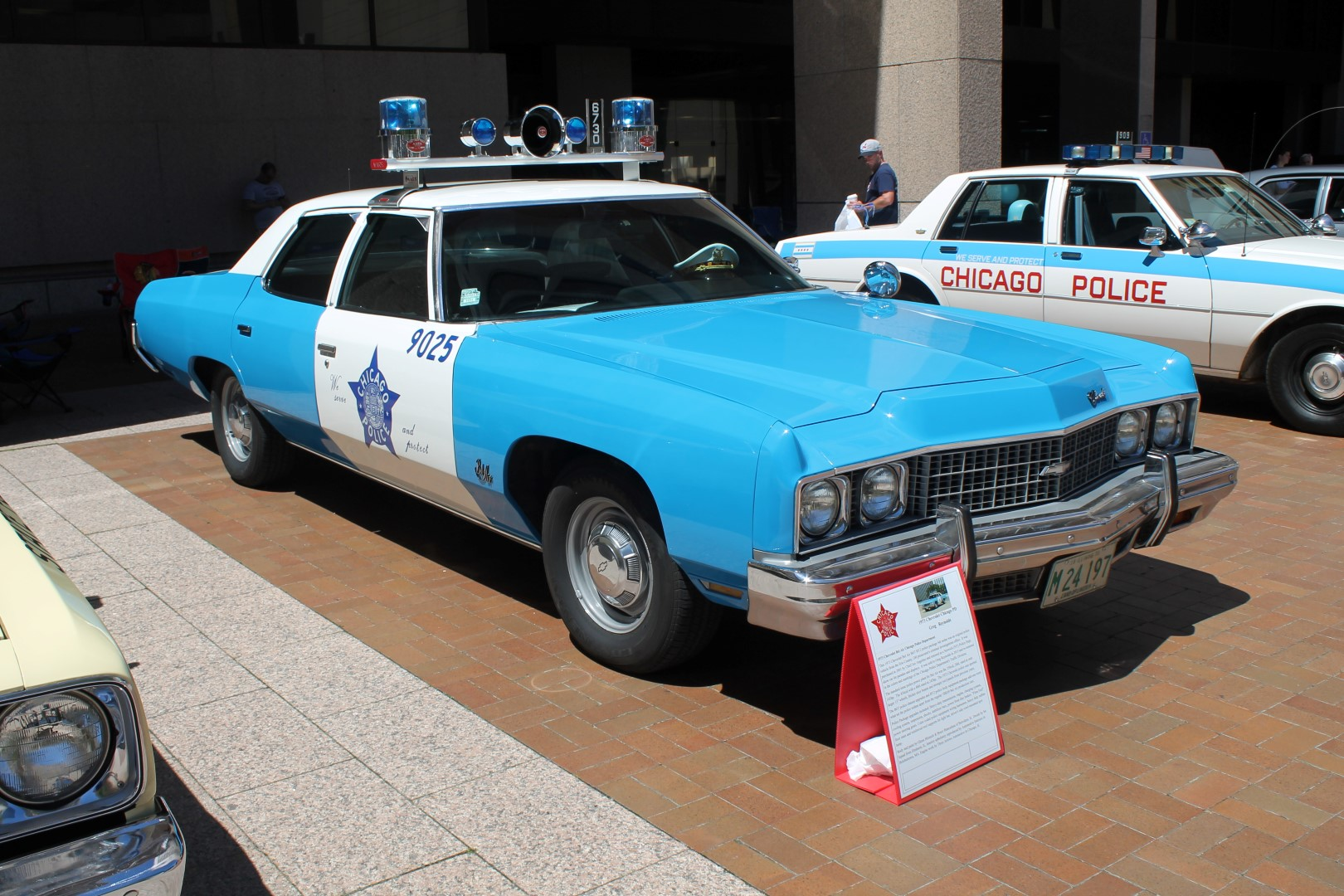 Cleveland Police Museum Vintage Police Car Show